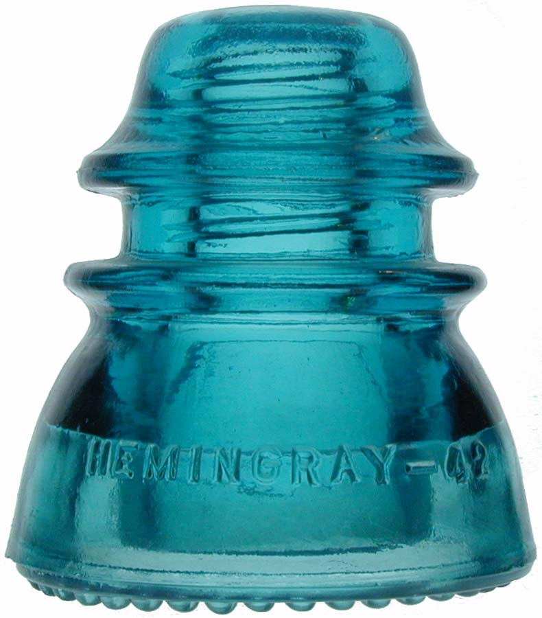 This is a Hemingray-42 insulator that I (Bill Meier 00:51, 22 February 2007 (UTC)) own and took a picture of. It is a better photo than what was currently on the page so I thought I would replace it. The Hemingray-42 is defined as a CD 154 in the CD numbering system. Older versions of this insulator come in Hemingray Blue and Aqua, and newer ones in Ice blue and clear.